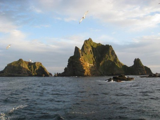 The Liancourt Rocks, also known as Dokdo or Tokto (독도/獨島, literally "solitary island") in Korean or Takeshima (たけしま/竹島, literally "bamboo island") in Japanese. Both main islet can be seen here: The eastern main islet on the left side (Korean: 동도/東島 Dongdo